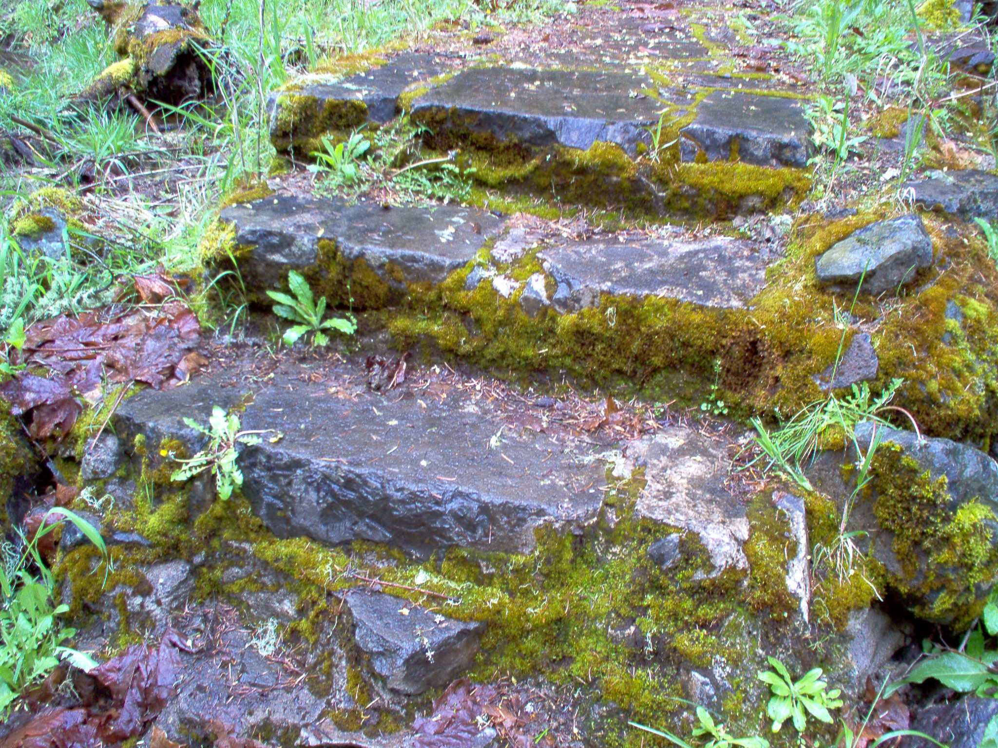 This image was taken by me at the Dead Indian Soda Springs